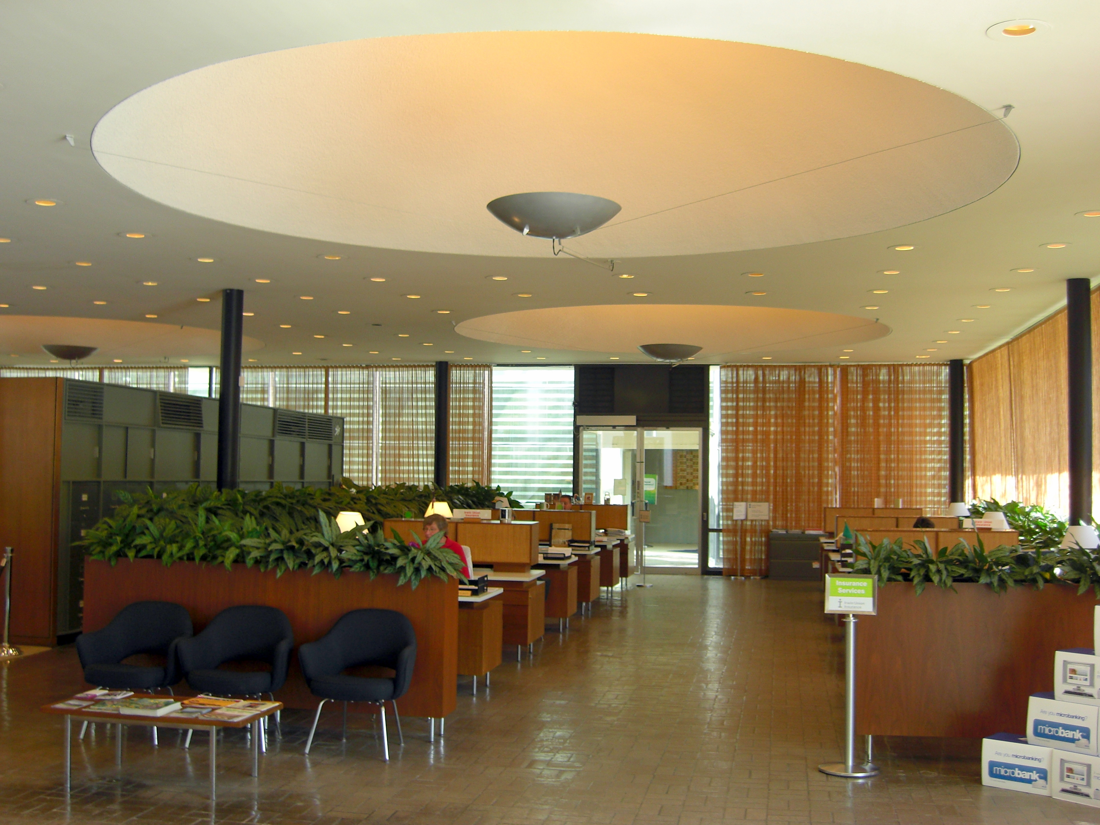 Inside the Irwin Union Bank and Trust